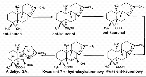 Giberelin synthesis